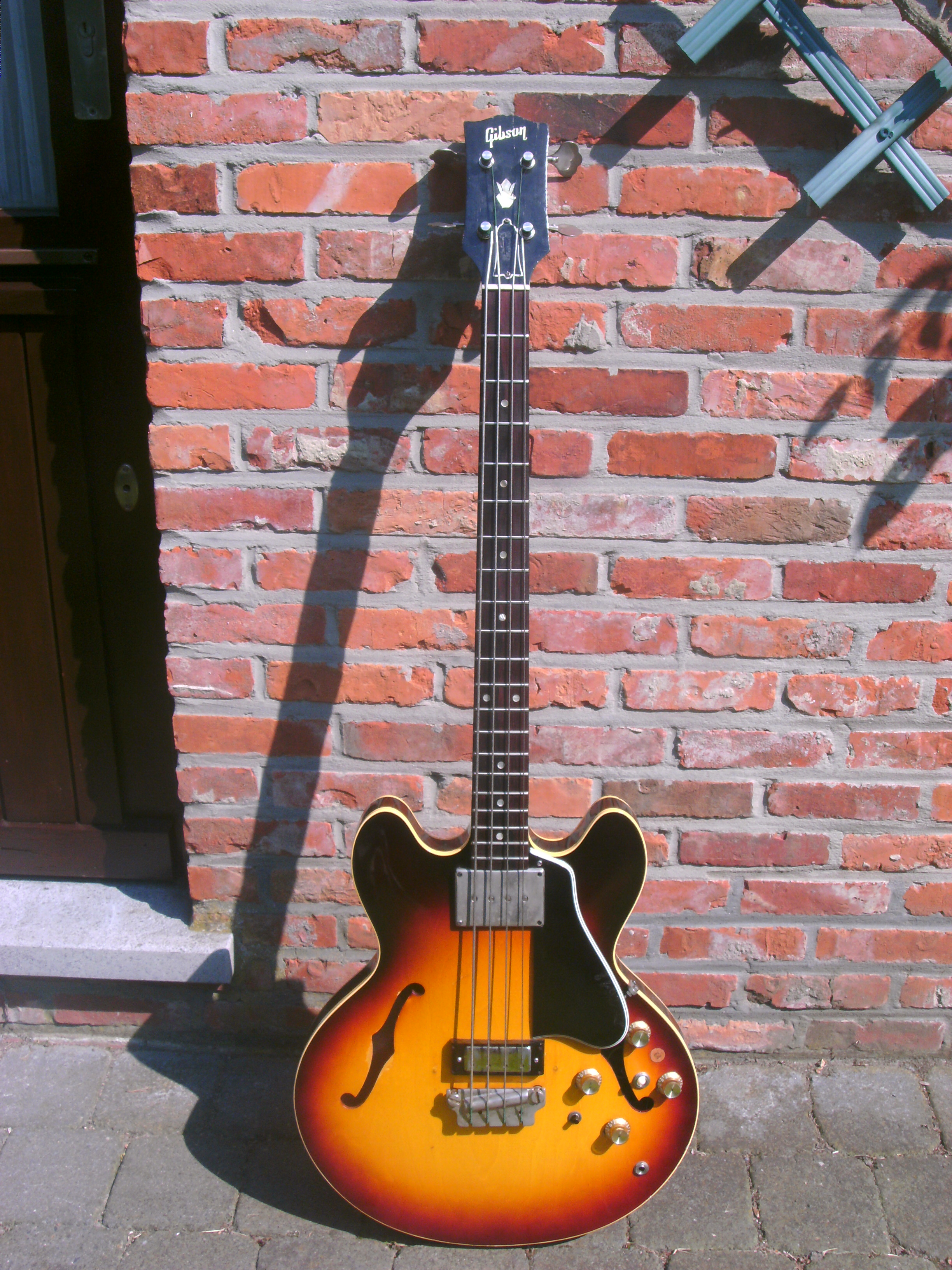 A sunburst 1964 Gibson EB-2, converted to an EB-2D by the addition of a humbucking pickup at the bridge.